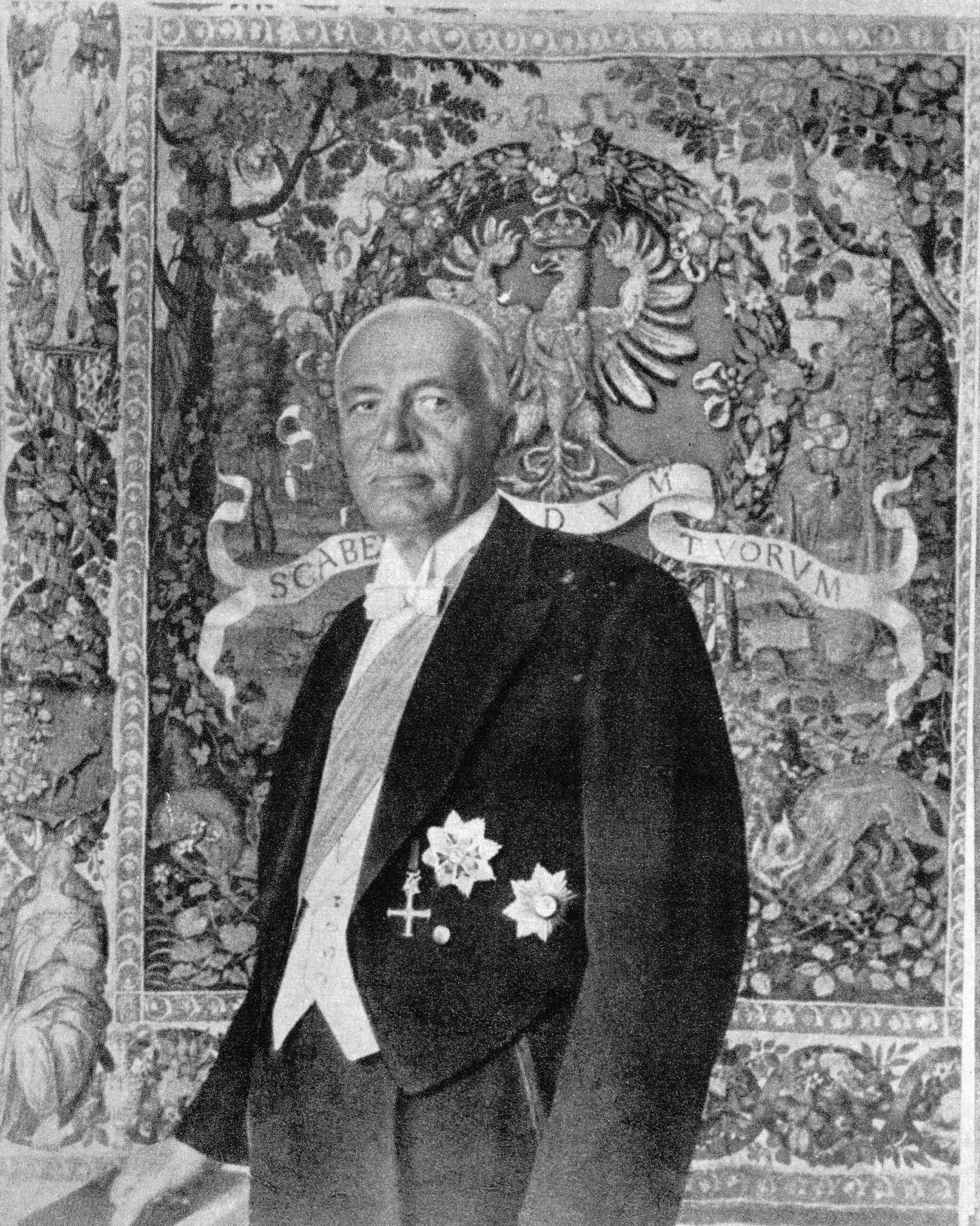 Polish president Ignacy Mościcki in 1938. Originally published in Światowid (No 48, 1938).